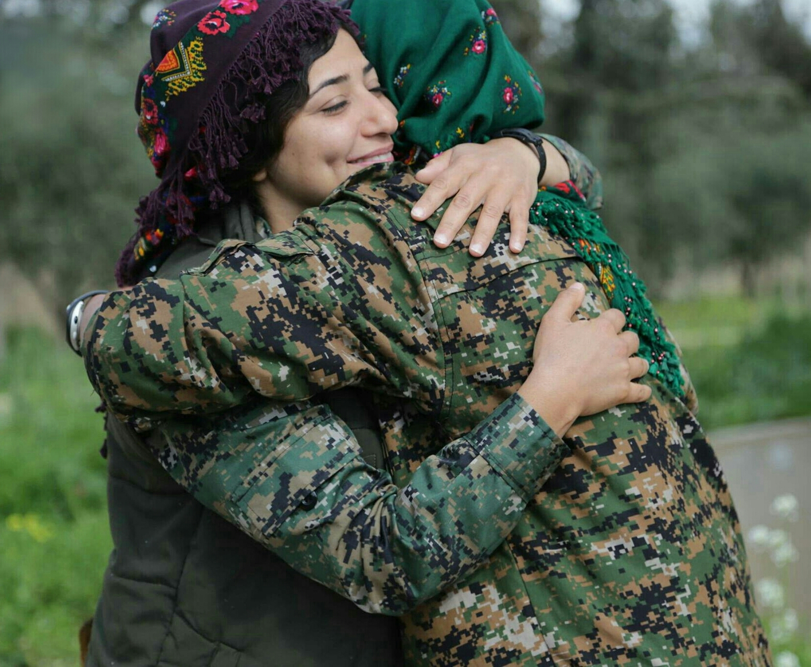 Two YPJ fighters hug